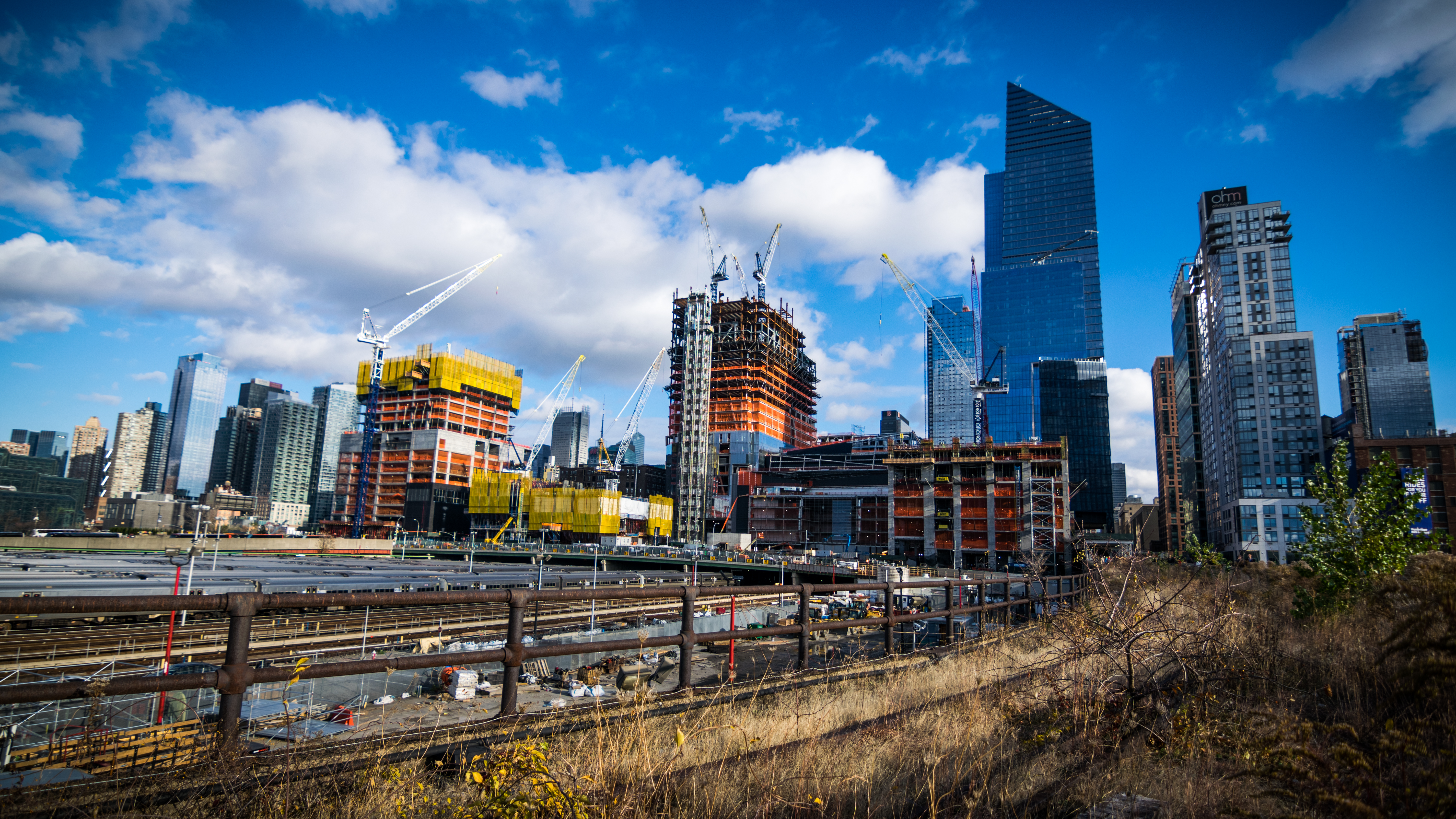 View of the city from New York City's High Line (United States).